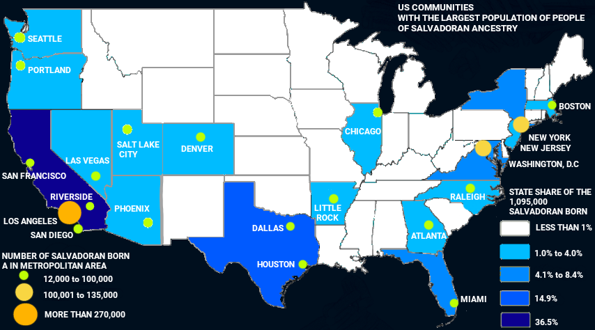 Mapa de la poblacion Salvadoreña en los Estados Unidos